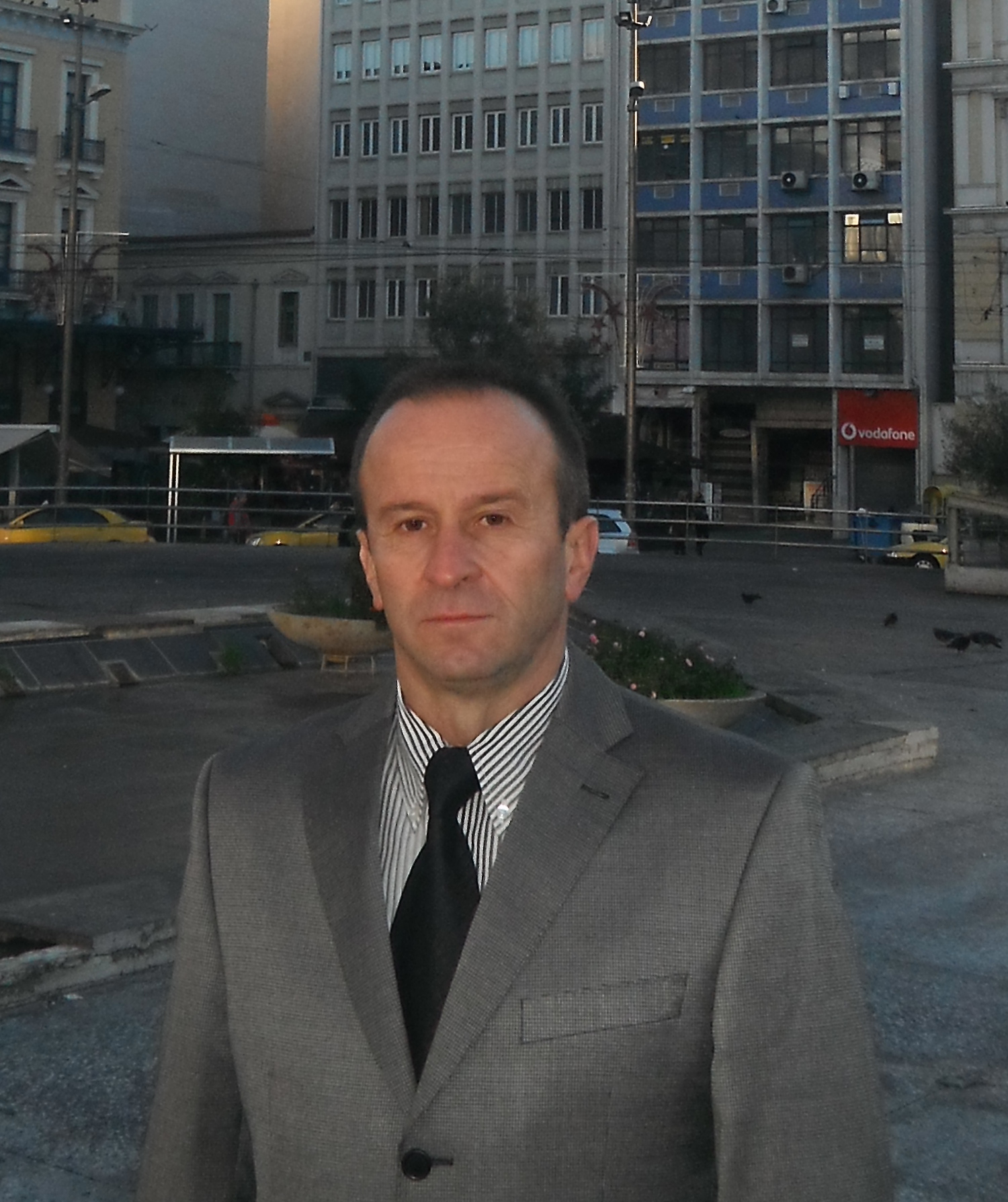 Dragan Djokanovic in Athens 2014